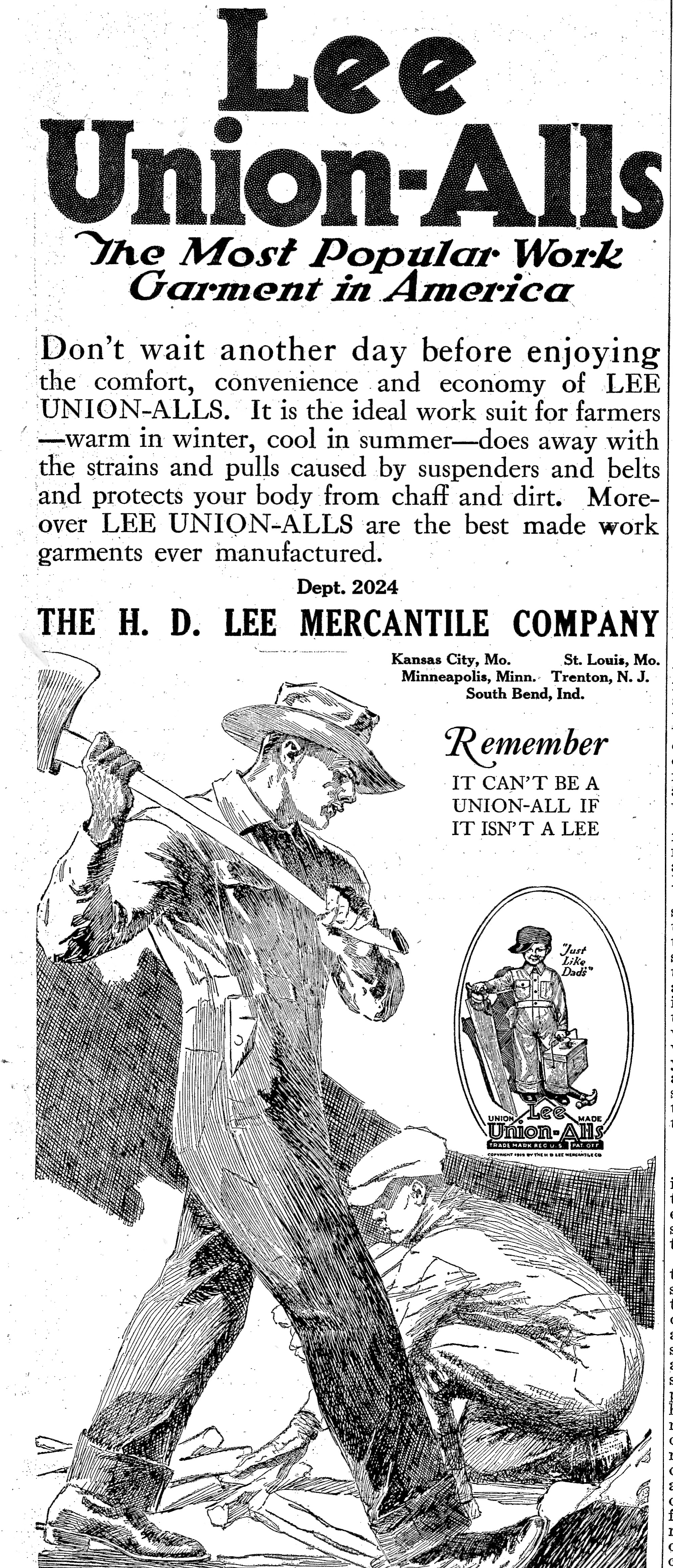 Unionalls